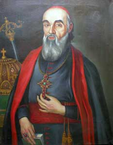 Ignatie Darabant (1738–1805), Bishop of the Diocese of Oradea Mare of the Romanian Greek Catholic Church from 1789 to 1805.